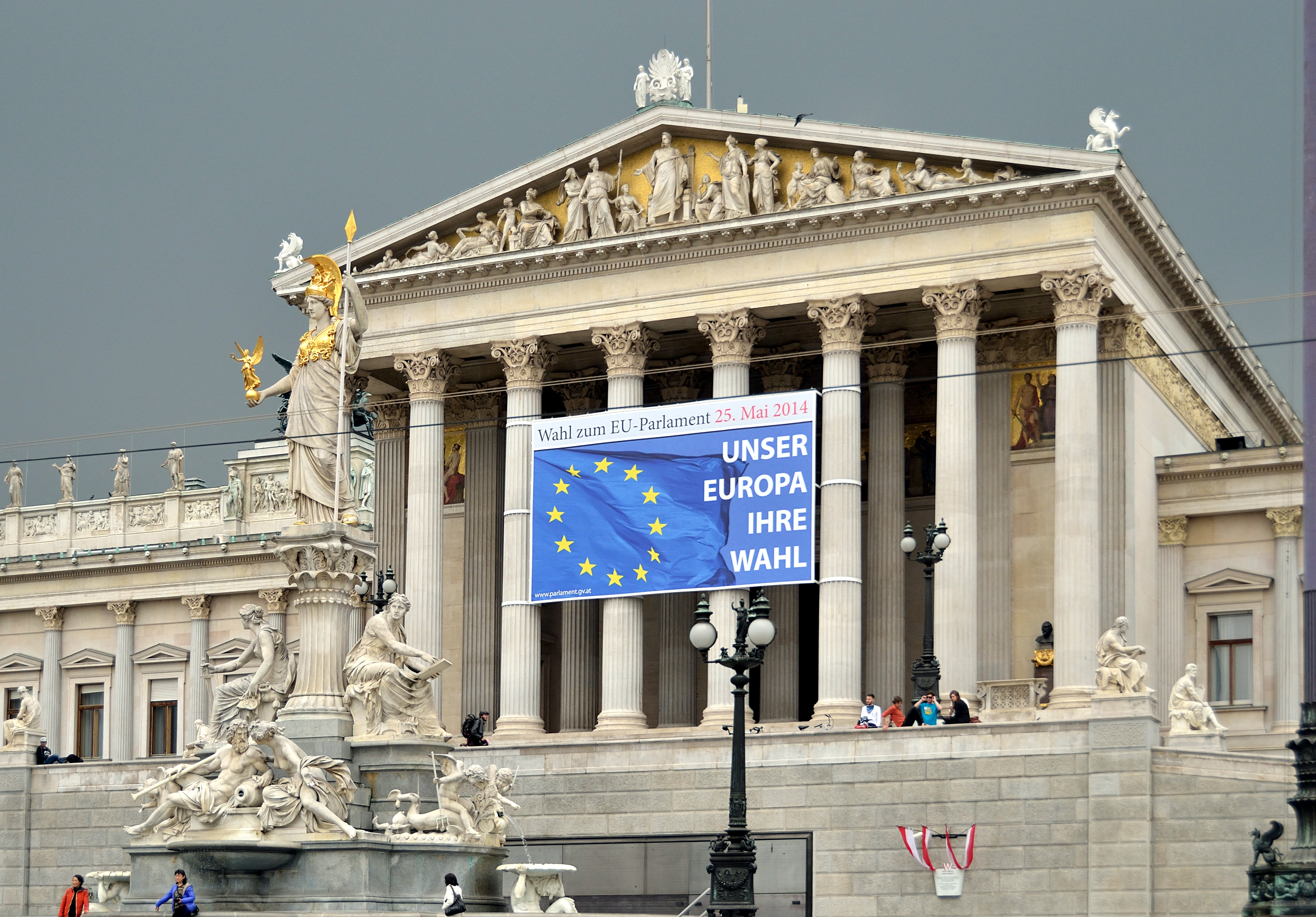 Poster motivating voters to take part in the elections for the European parliament in May 25th, 2014. Shown at Austrian parliament building.